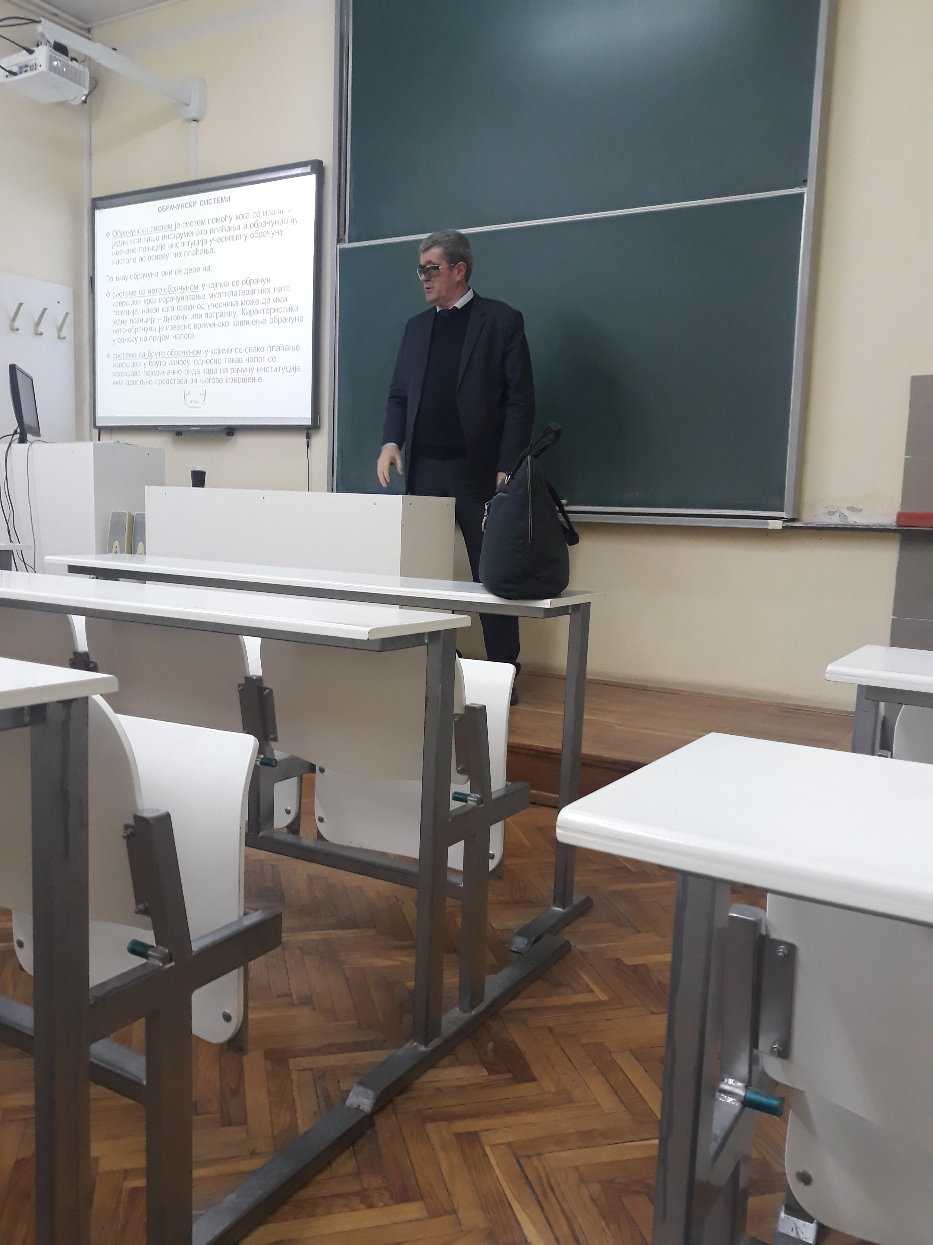 др Раде Станкић